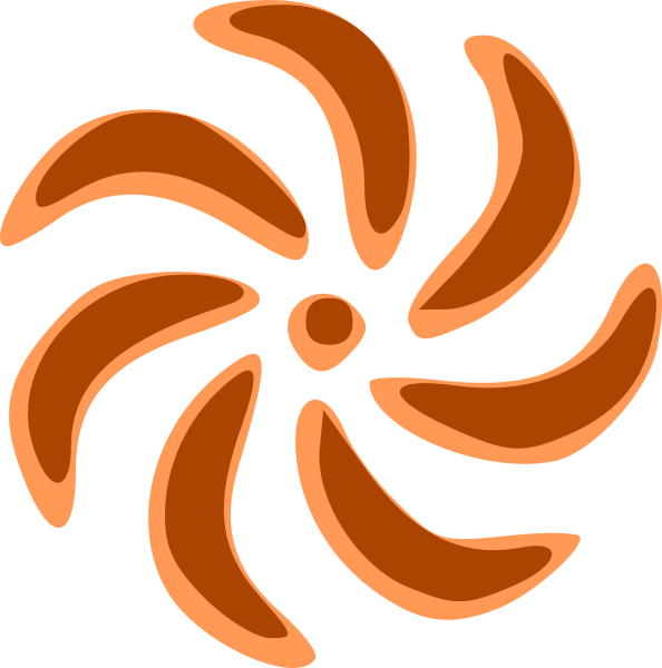 Borjgali is an ancient Georgian symbol of the Sun and is related to the Messopotamian and Sumerian symbols of the eternity and the Sun.